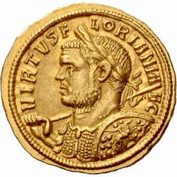 Florianus, June – August 276, Aureus, Ticinum circa 276, AV 4.62 g. VIRTVS F – LORIANI A – VG Laureate and cuirassed bust l., holding spear in r. hand and round shield decorated with horseman and fallen enemy motif over l. shoulder. Calicó 4135 (this coin). C 106. Estiot 7a (this coin). RIC 24.